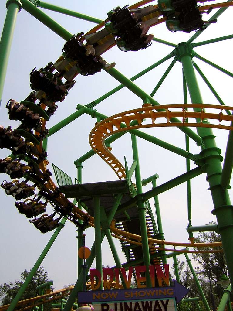 Rugrat's Runaway Reptar roller coaster at Paramount's Kings Island.